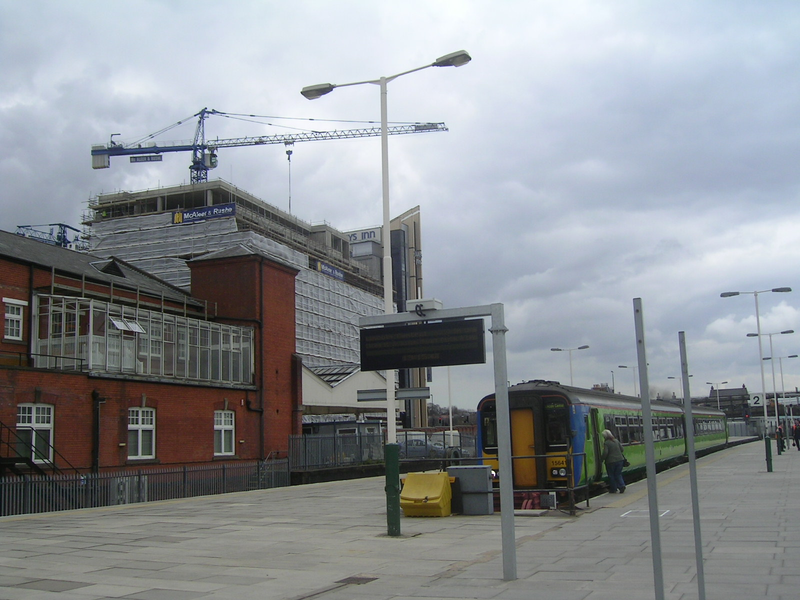 Platforms 1b and 2 at Nottingham Station. Taken by me in April 2006. Zverzia 18:19, 25 August 2006 (UTC)